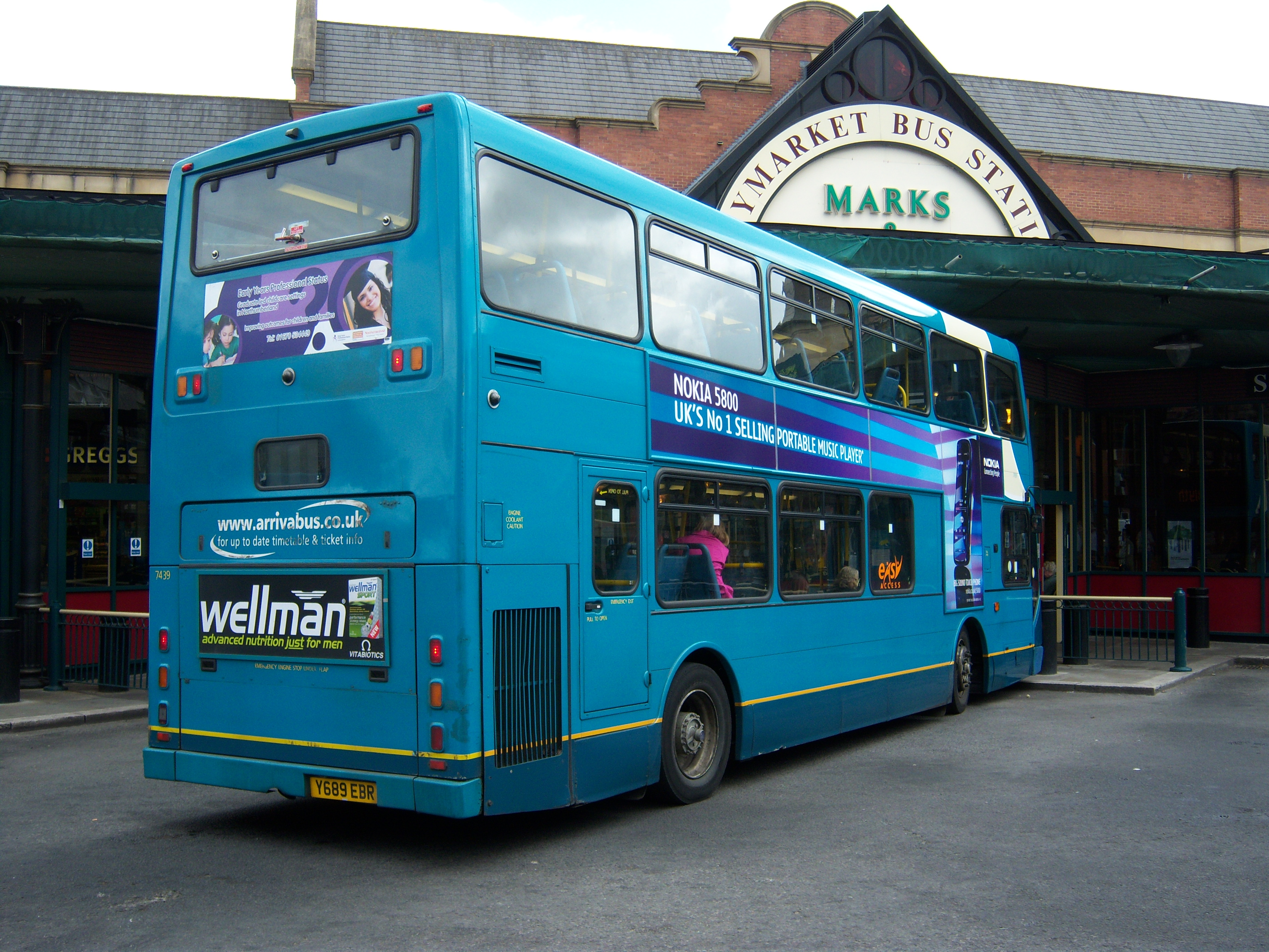 Arriva North East 7439 (Y689 EBR), a DAF DB250/East Lancs Myllennium Lowlander bus in Newcastle upon Tyne, on route X1.